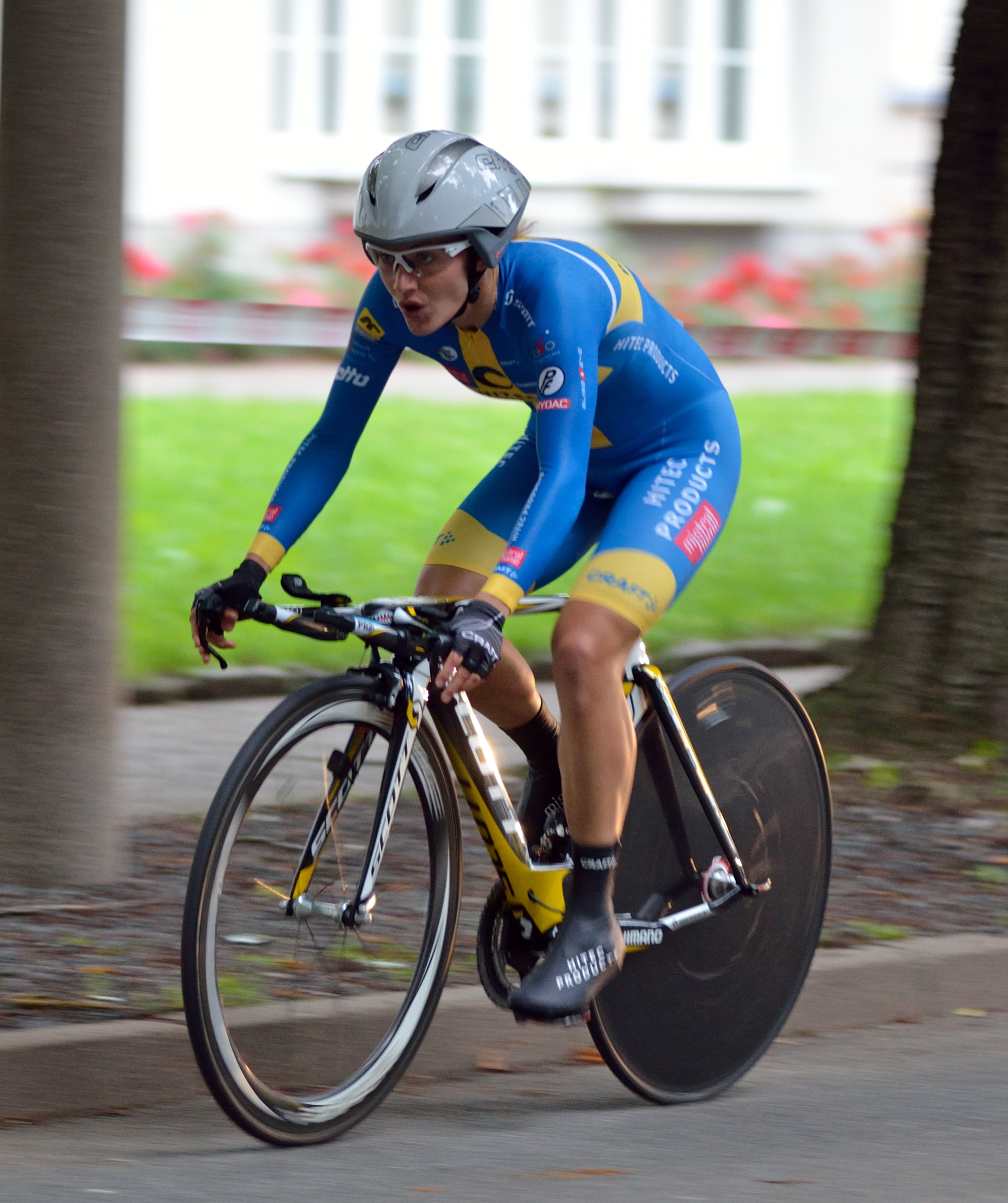 Emma Johansson from the Hitec Products-Mistral Home Cycling Team during the Women's Tour of Thuringia 2012 in Zwickau, Germany.